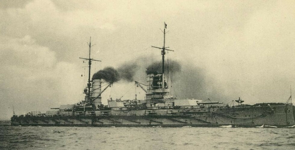 Photo of the German battleship SMS Kaiserin.